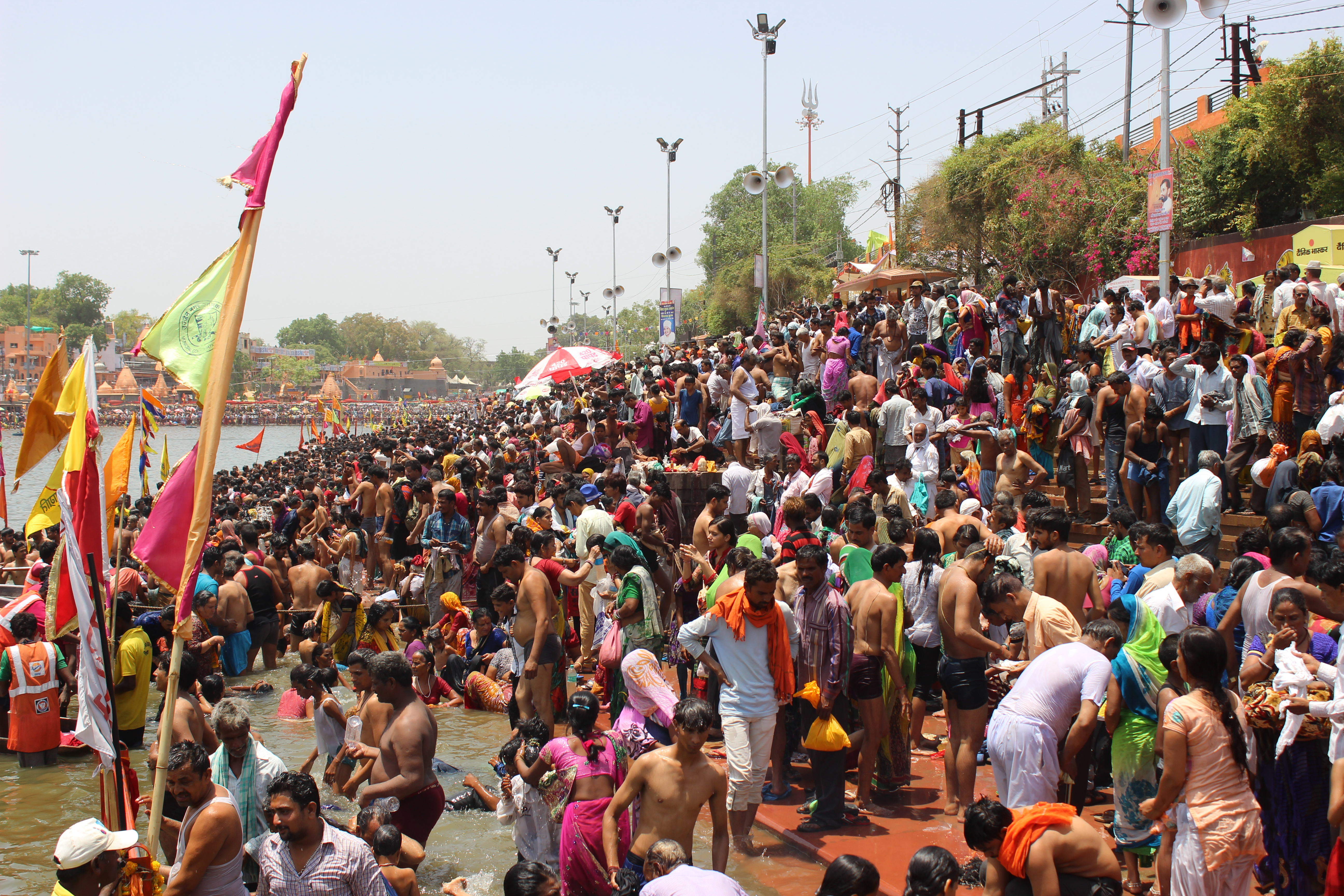 Pramukh Shahi Snaan Vaishakh Shukla 15, 21st May, 2016 (Saturday)